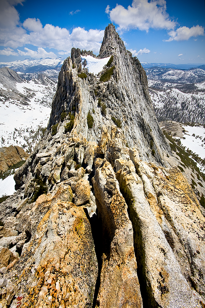 View On Black. Ridge connecting Echo Peaks 2 & 3 from Echo Peak 1. Yosemite National Park, June 2010. More from the trip